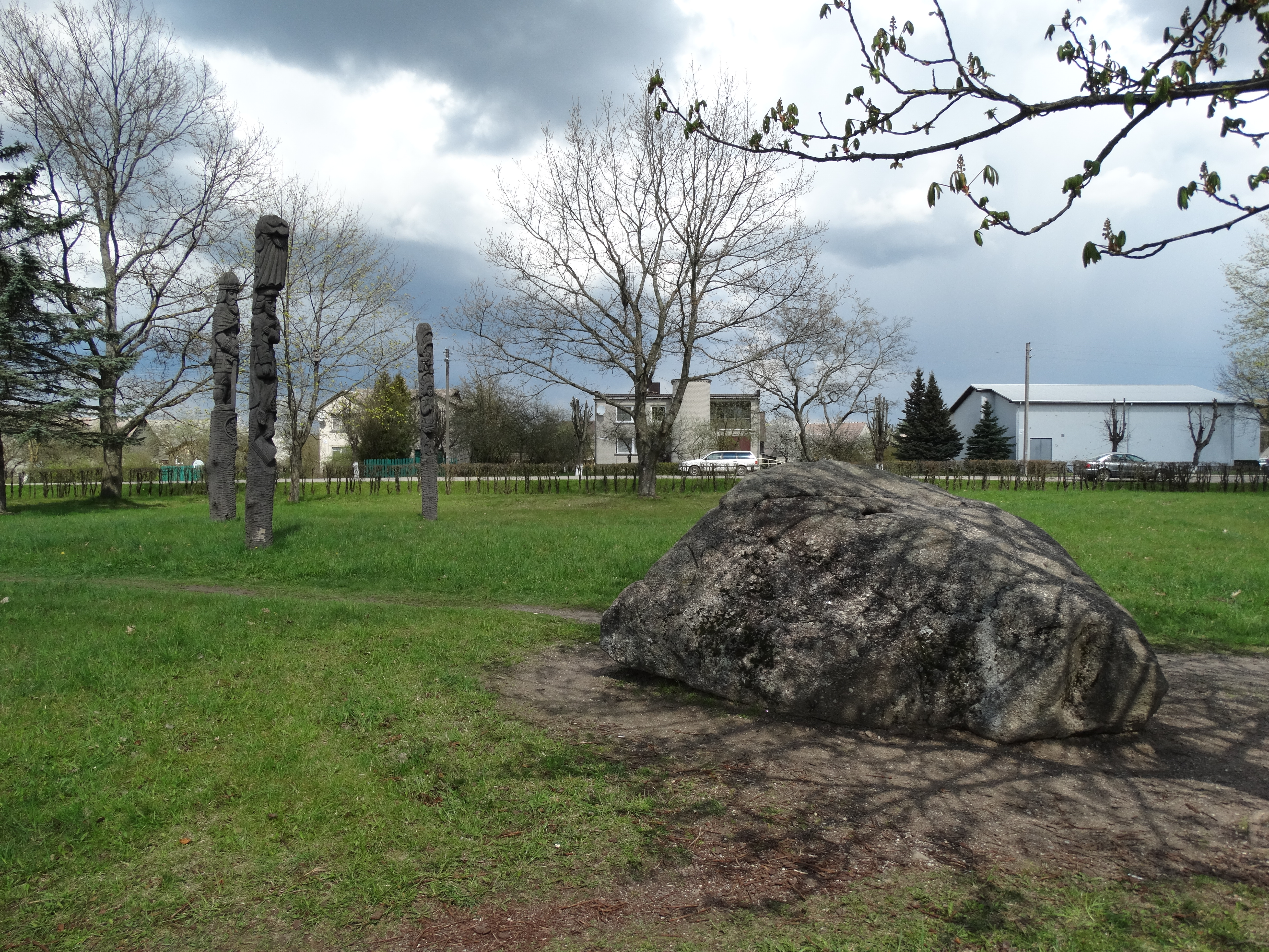 Stone, Marijampolis, Vilnius District, Lithuania